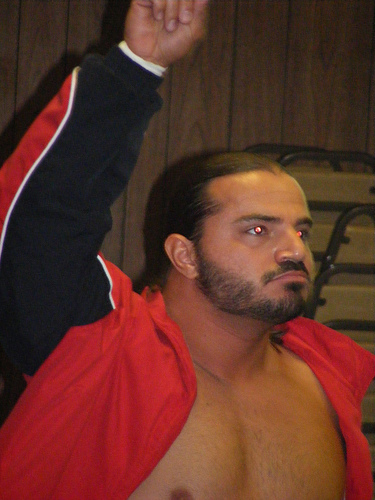 Professional wrestler Alex Arion at an EPW show on October 18, 2008